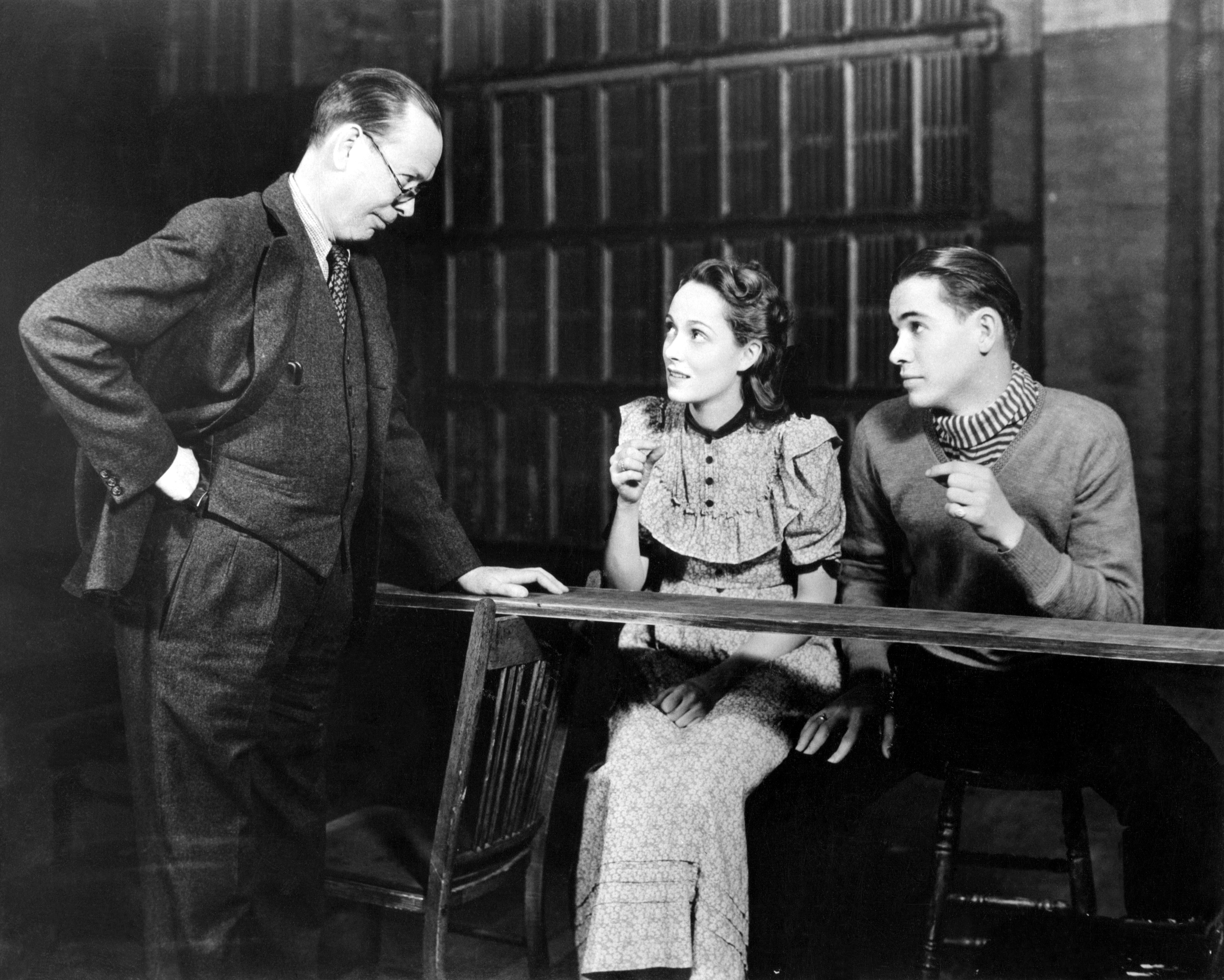 Photograph of Frank Craven, Martha Scott and John Craven in the original Broadway production of Our Town Snipe on reverse side reads as follows:SCENE FROM 1938 PULITZER PRIZE PLAYNEW YORK, N.Y. — Frank Craven, Martha Scott and John Craven, in a scene from the play Our Town, produced at the Morosco Theatre, New York, for which the author, Thornton Wilder, received one of the Pulitzer Prize awards in letters at the silver anniversary dinner of the Columbia School of Journalism here tonight. The prize of $1,000 was awarded "for the original American play, performed in New York, which shall represent [illegible] fashion the educational value and power of the stage, preferably dealing with American life."M—5/2/38 (s)